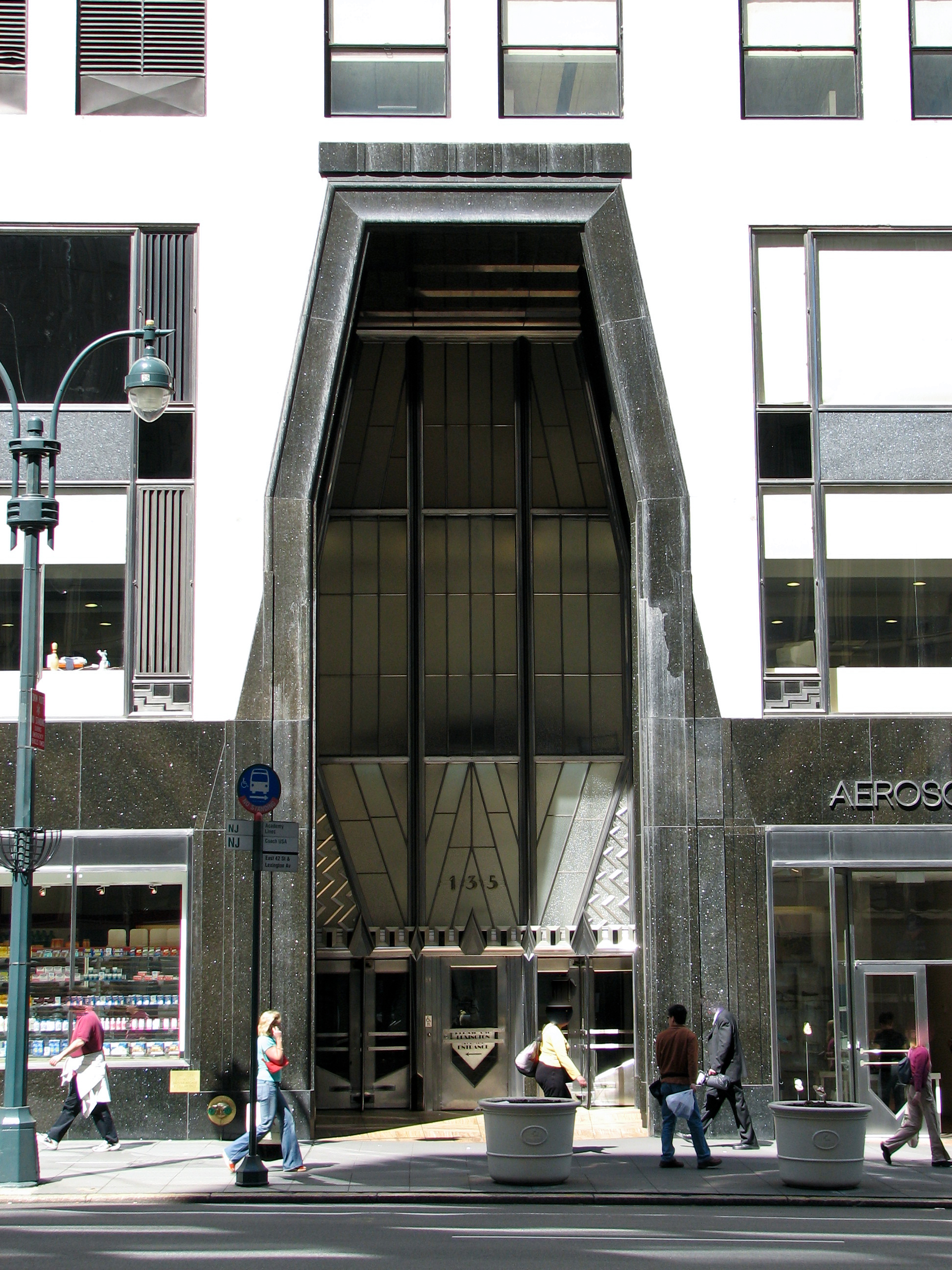 New York City - Chrysler Building